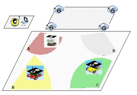 A sketch of 4 cameras controlling 3 robots in iSpace. Created in Microsoft Visio for the needs of a report.